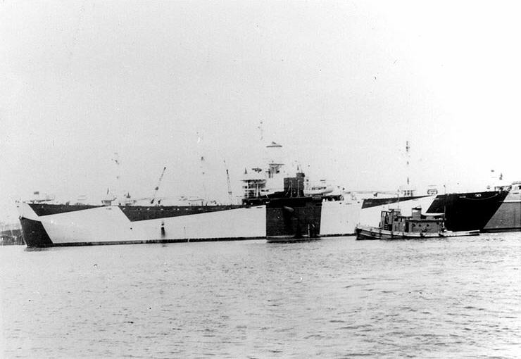 USS Stag (AW-1) photographed circa mid-1944, probably upon completion of conversion to a water distilling ship. Note: she is painted in Camouflage Measure 32, Design 11F. The medium tones of this pattern are only faintly visible on the ship's forward and midships hull sides. US Navy photo #NH 85469. Official Navy photo taken from